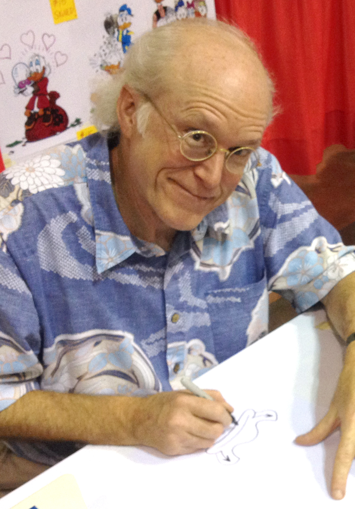 Don Rosa draws Uncle Scrooge at MegaCon 2012 in Orlando, Florida